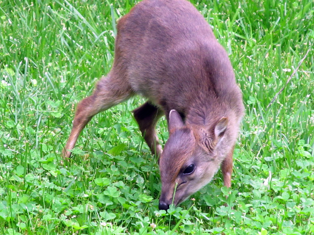 As one of the smallest antelope species, the blue duiker is also one of the cutest. But the klipspringer wins that.